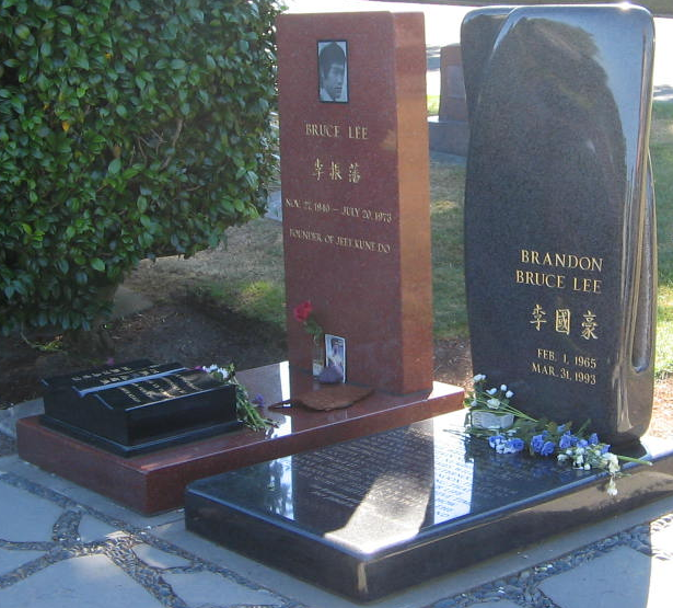 Picture of Bruce and Brandon Lee's grave took in Seattle, August 2005.